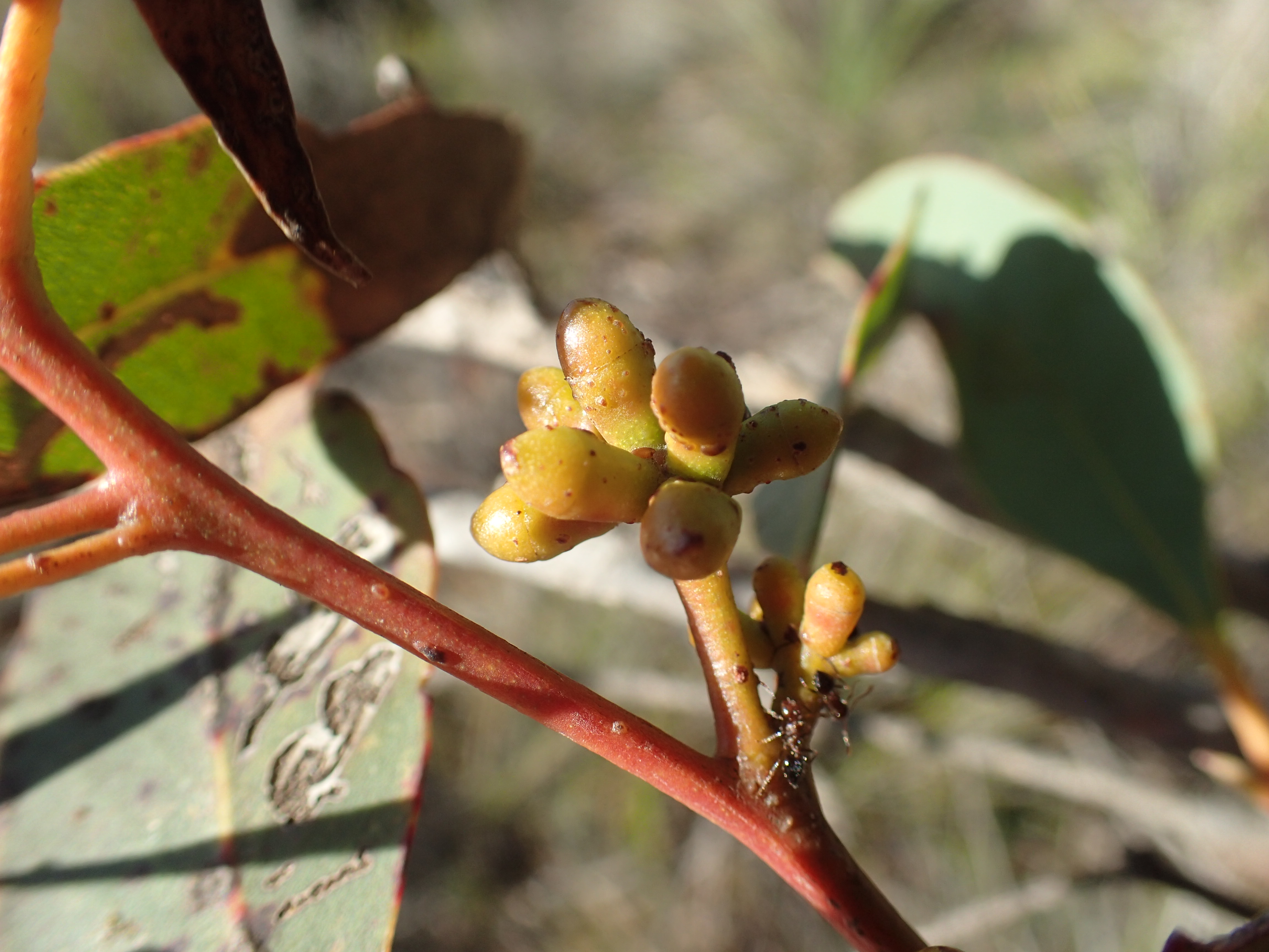 'Eucalyptus × balanites flower buds near Badgingarra